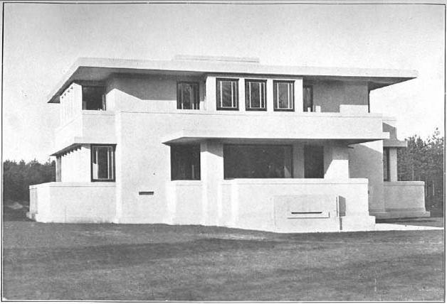 Anonymous. House Henny, Huis ter Heide. c 1918 (?). Photo.